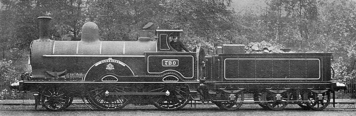 London and North Western Railway, 790 Hardwicke LNWR Improved Precedent or Jumbo class